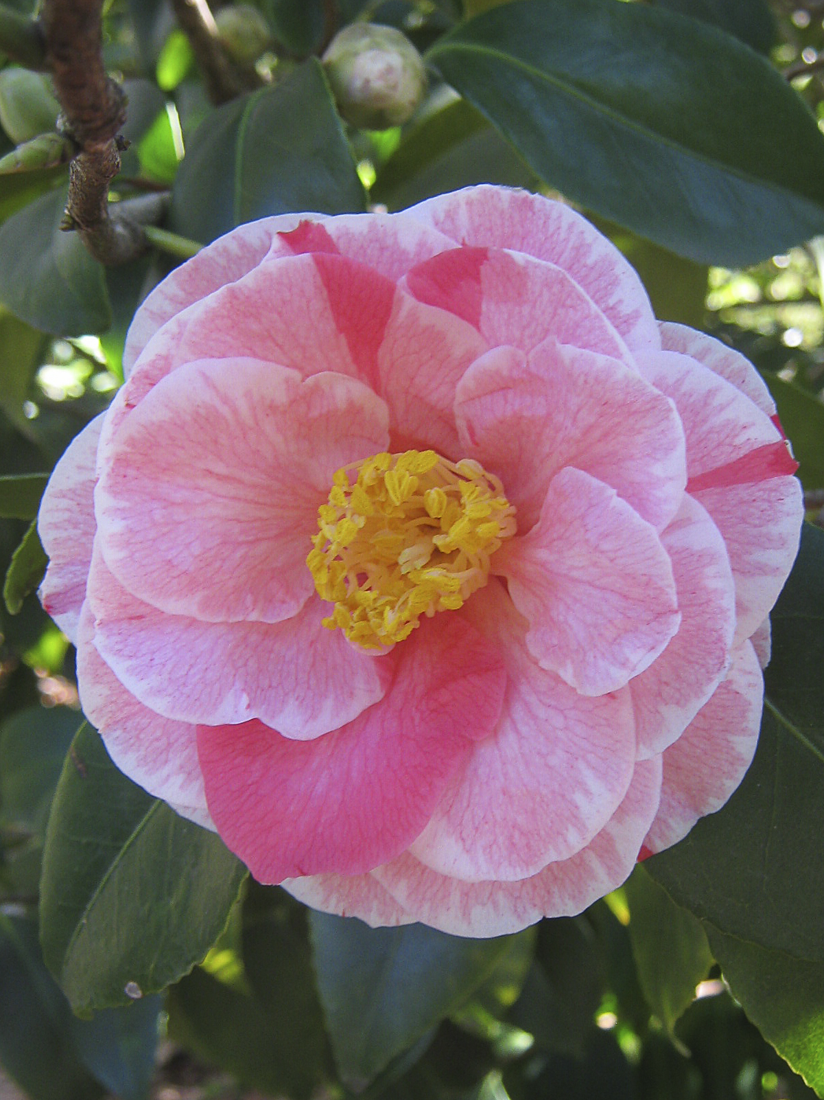 Camellia japonica 'Nancy Bird' by E.G. Waterhouse 1952; photographed in the Royal Botanic Gardens Melbourne